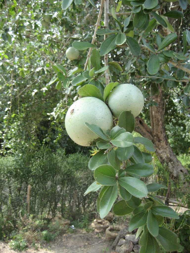 Strychnos madagascariensis. In Machaze district of Mozambique this wild fruit is called "Macuacua"